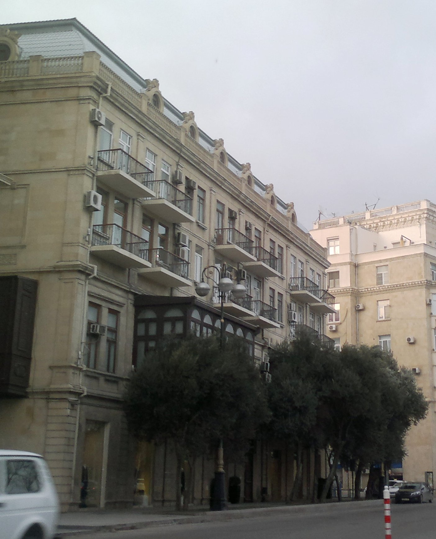 Building on Neftchilar Avenue 83. Built in 1889. Former revenue house belonged to Zeynalabdin Taghiyev.